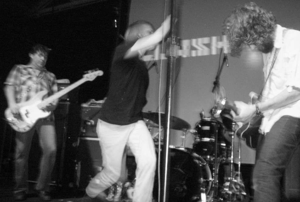 Mudhoney Clash Club Night 2